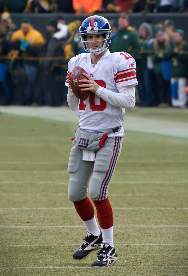 New York Giants vs. Green Bay Packers in the NFC Divisional Playoff Game at Lambeau Field on January 15, 2012. Photo by Mike Morbeck.